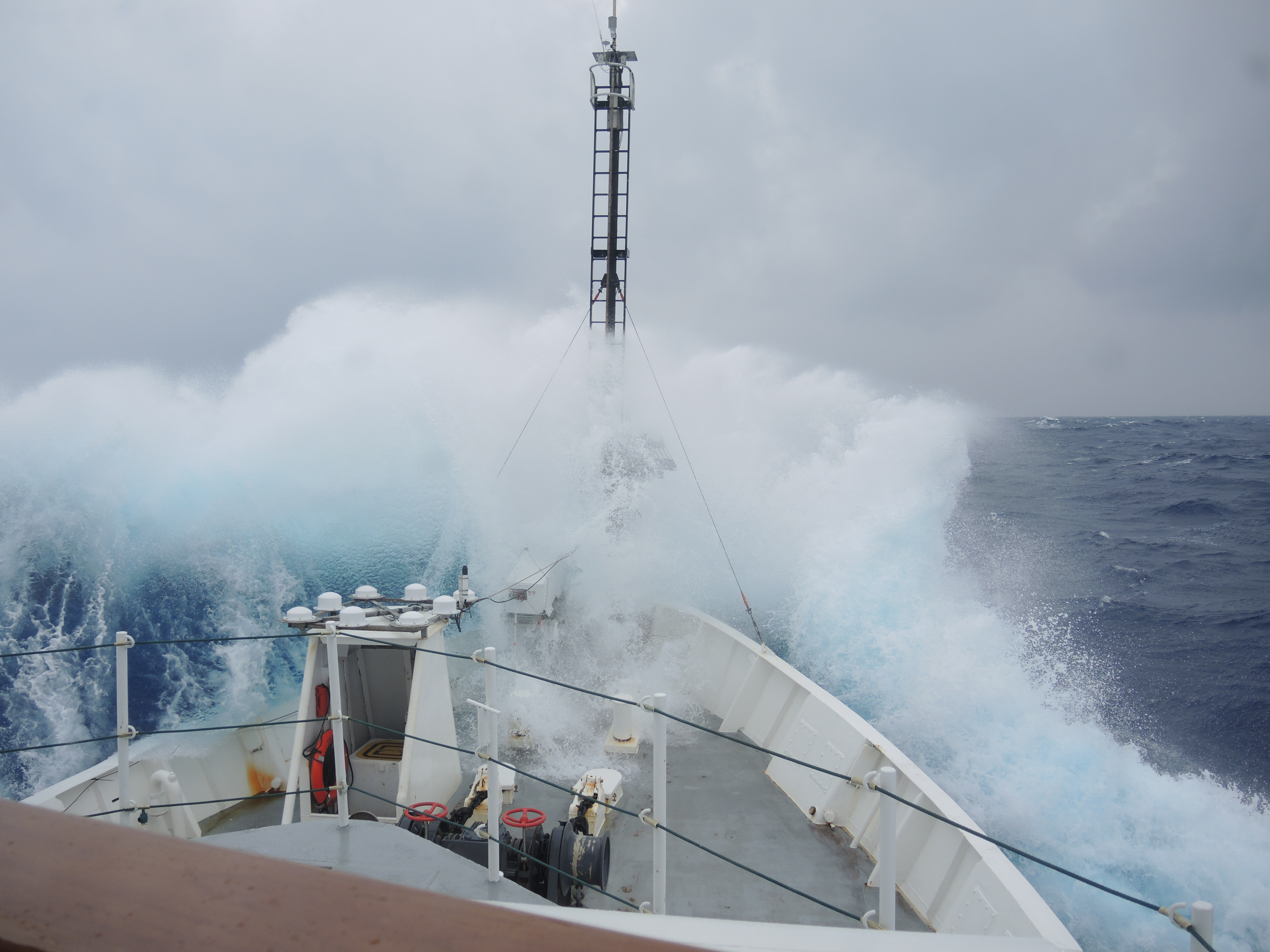 Storm in the Sargasso Sea Scientist aboard the R/V Endeavor in the Sargasso Sea put their research on hold on July 28, 2014, as a storm system brought high waves crashing onto the deck. NASA's Ship-Aircraft Bio-Optical Research (SABOR) experiment is a coordinated ship and aircraft observation campaign off the Atlantic coast of the United States, an effort to advance space-based capabilities for monitoring microscopic plants that form the base of the marine food chain. Read more: Credit: NASA/SABOR/Chris Armanetti, University of Rhode Island .NASA image use policy. NASA Goddard Space Flight Center enables NASA’s mission through four scientific endeavors: Earth Science, Heliophysics, Solar System Exploration, and Astrophysics. Goddard plays a leading role in NASA’s accomplishments by contributing compelling scientific knowledge to advance the Agency’s mission. Follow us on Twitter Like us on Facebook Find us on Instagram